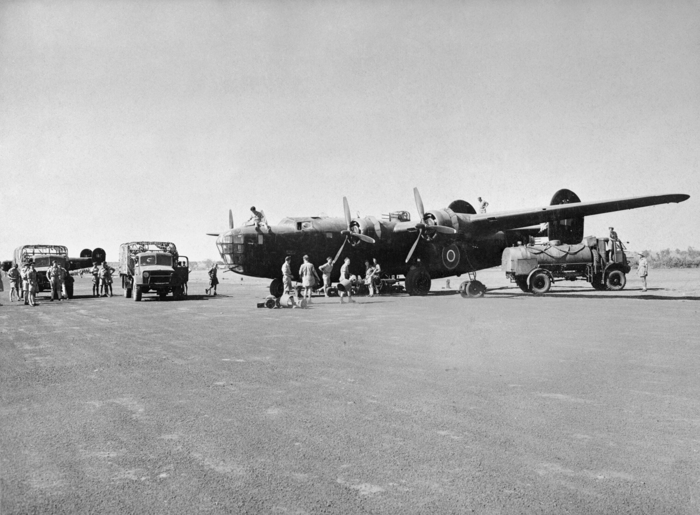 Royal Air Force Operations in the Far East, 1941-1945. A Consolidated Liberator Mark II of No. 159 Squadron RAF is refuelled at Salbani, India, before undertaking a raid on the docks at Rangoon, Burma.